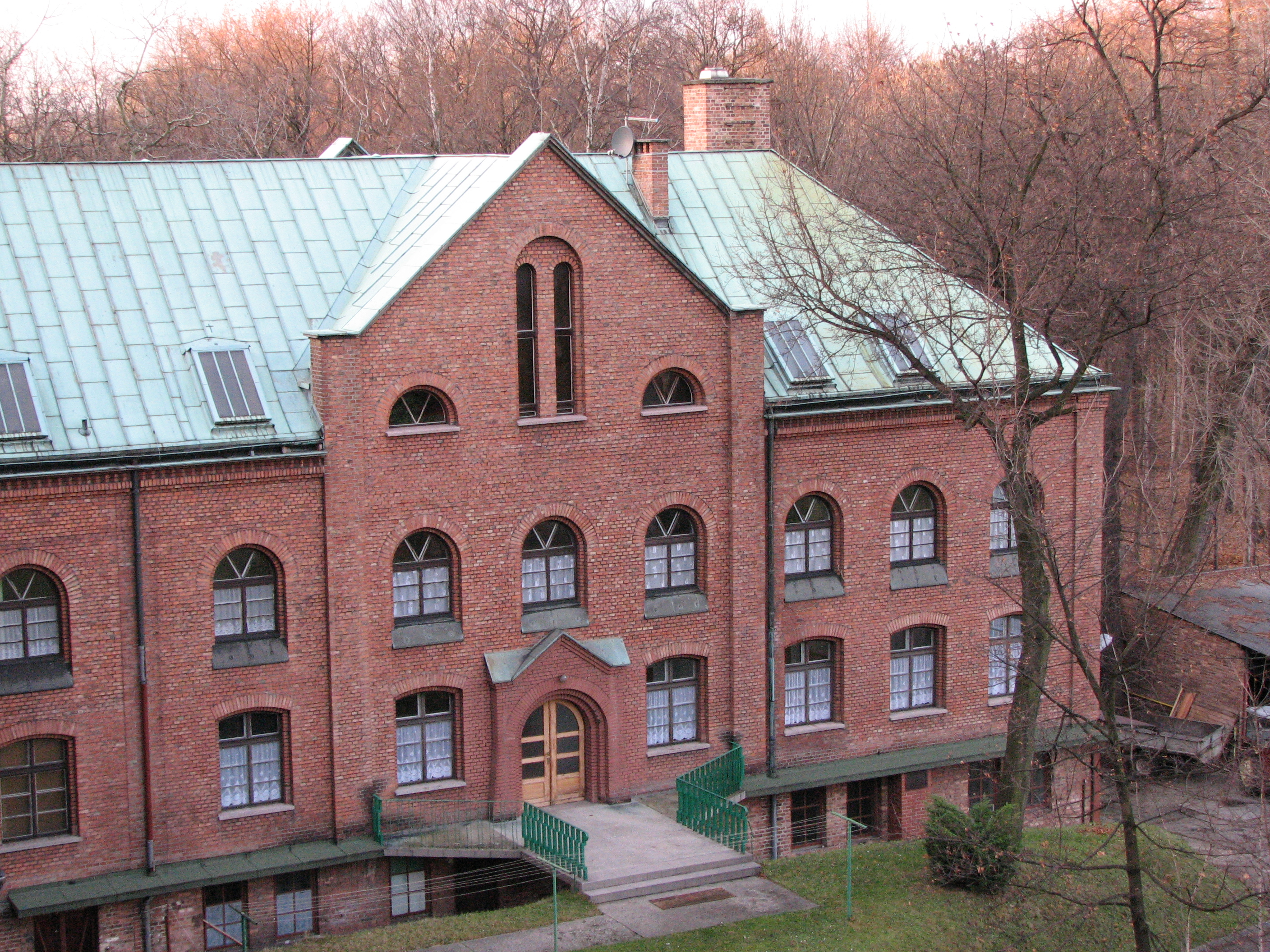 Franciscan monastery in Katowice Panewniki, Poland (wing of the building called Kochłowice)